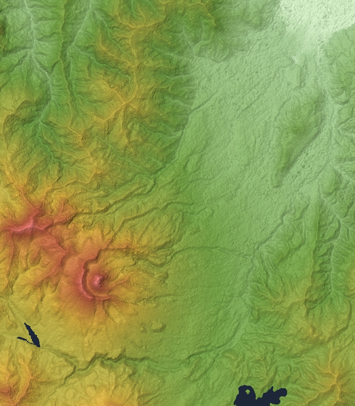 Mount Myōkō is a volcano in Niigata Prefecture, Honshu, Japan.